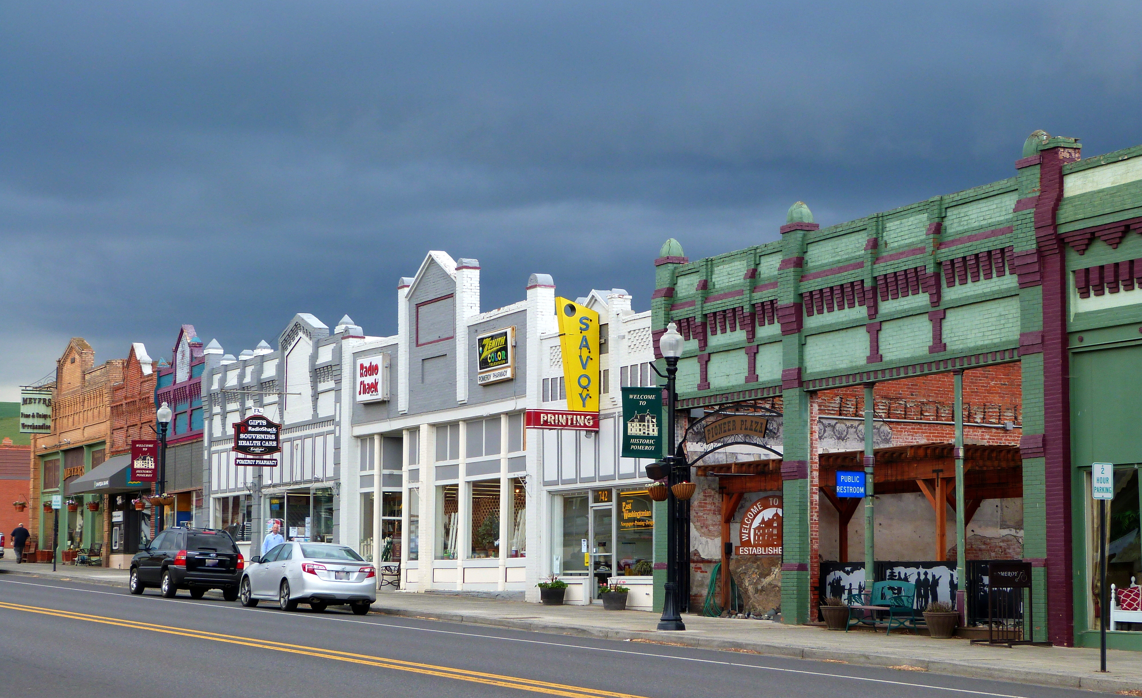 Commercial buildings in the Downtown Pomeroy Historic District, Pomeroy, Washington, United States. The historic district is listed on the US National Register of Historic Places. Left to right: Pomeroy Mercantile Company (mint green sign), built 1900, 796 Main Street C. W. Black Building, built 1900, 782 Main Street Hazelton Building, built 1901, 778 Main Street Kuykendall Bloc, built 1900, 764 Main Street Mulkey Block / McKiernan's Hardware, built 1901, 752 Main Street McEnery Block, built 1901, 742 Main Street Gammon Block (facade only, noncontributing), built 1901, 730–736 Main Street Central Drug Store (partial view only), built 1903, 718–722 Main Street